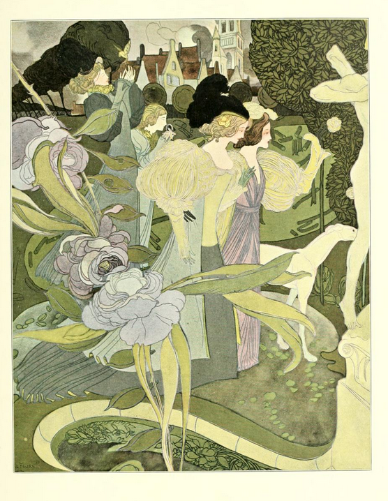 Illustration after a watercolor painting by Georges de Feure, published in The Studio, issus 56, November 1897, with a text by Gabriel Mourey.